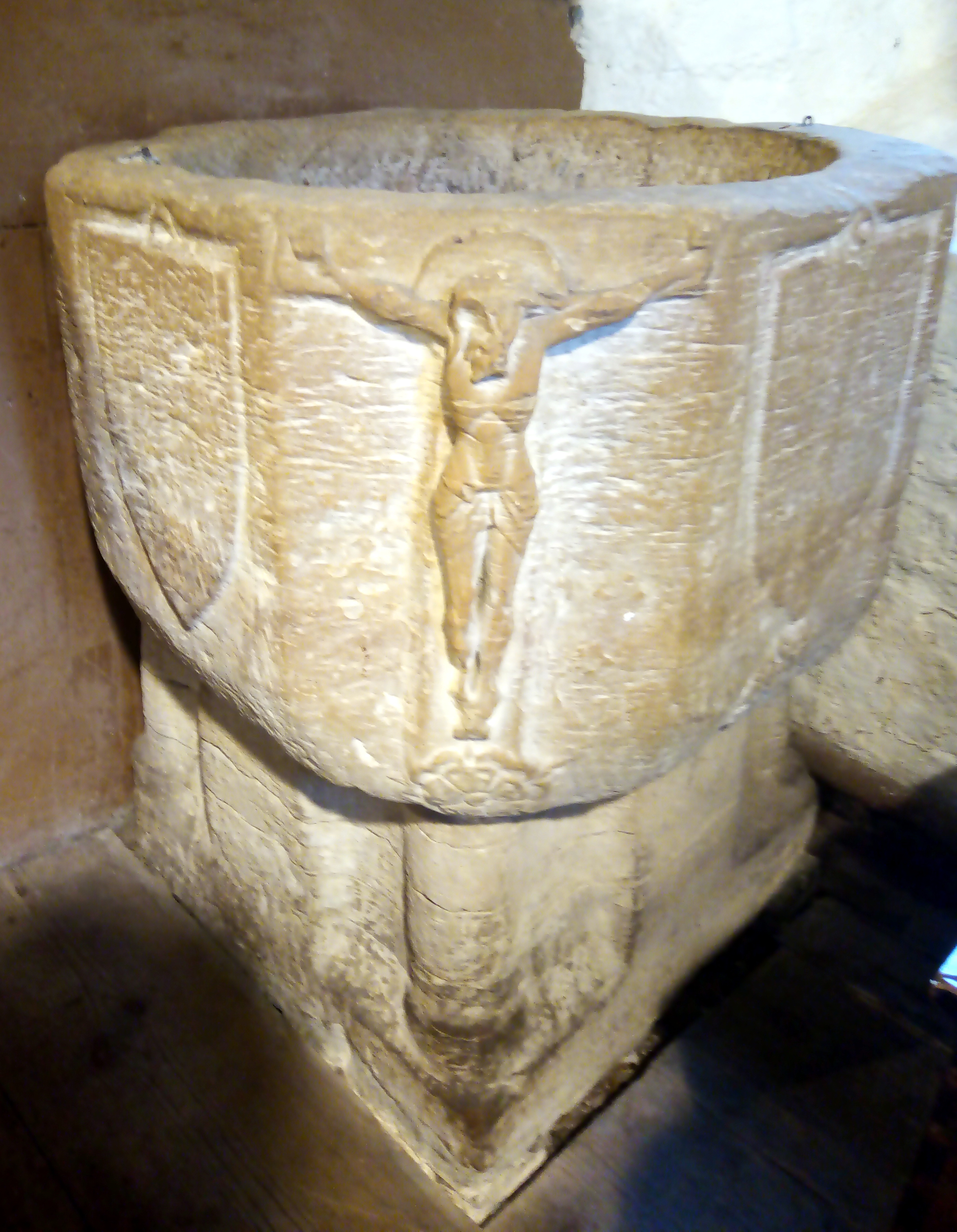 Font, believed to come from Dale Abbey, c. 1450, crucifix with shield and rose each side. Placed in church 1884. All Saints' Church, Dale Abbey, Derbyshire.